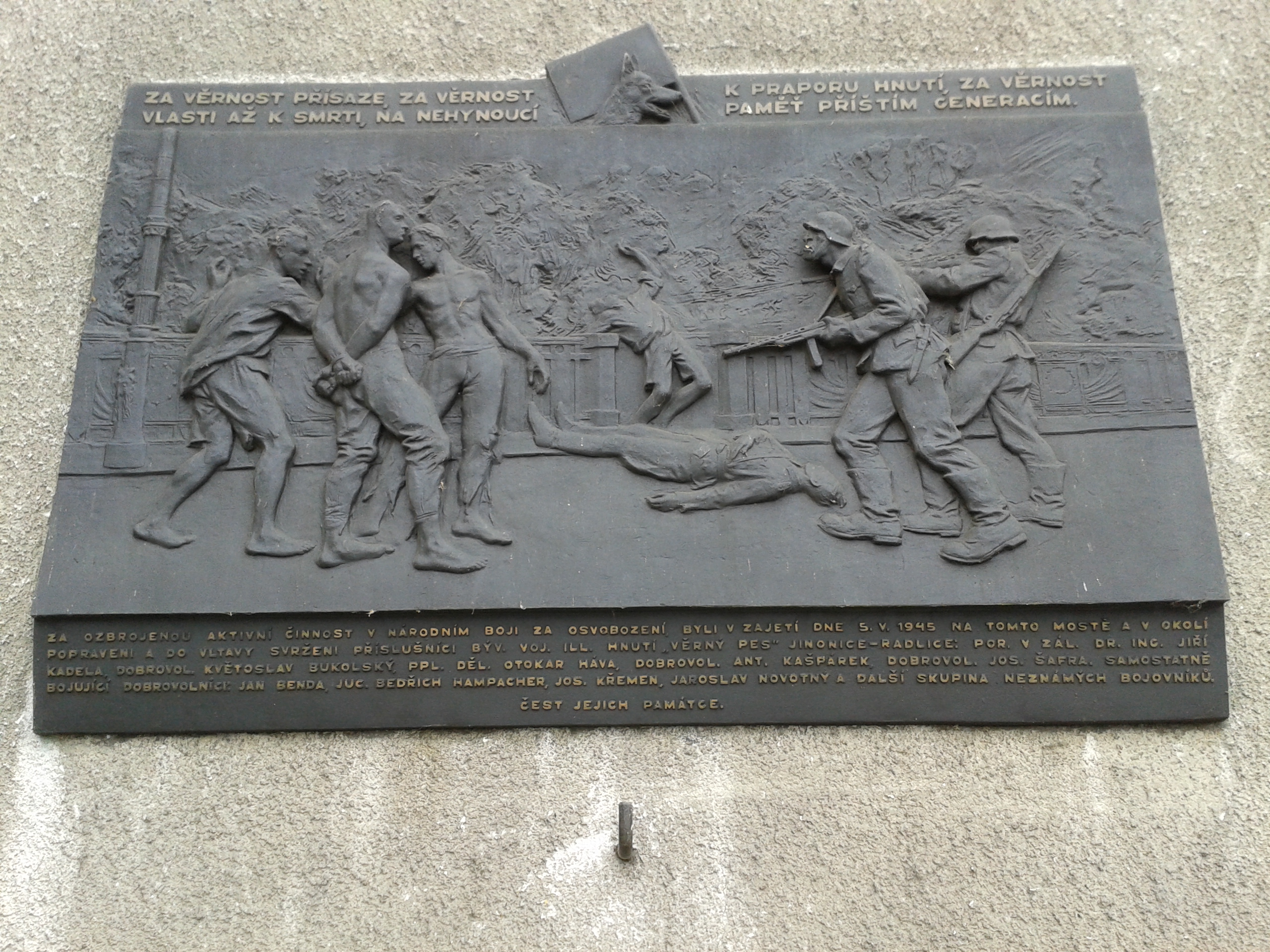 A bronze memorial plaque (right from the main door) on the front of the building of the Law Faculty at Charles University Square Curieových no. 901/7 Prague 1 Old Town. The memorial plaque is dedicated to Czech anti german heroes (nine fighters) which were killed during the May uprising in 1945 near the Faculty of Law of Charles University in Prague and on the bridge of Svatopluk Čech. Its author is Czech sculptor Jan Znoj. Memorial plaque is dated 1946. In the central part of the memorial plaque is a relief depicting the scene of executions Czech heroes by Nazi soldiers. Author shows the execution on the realistic place in front of railing of the bridge.